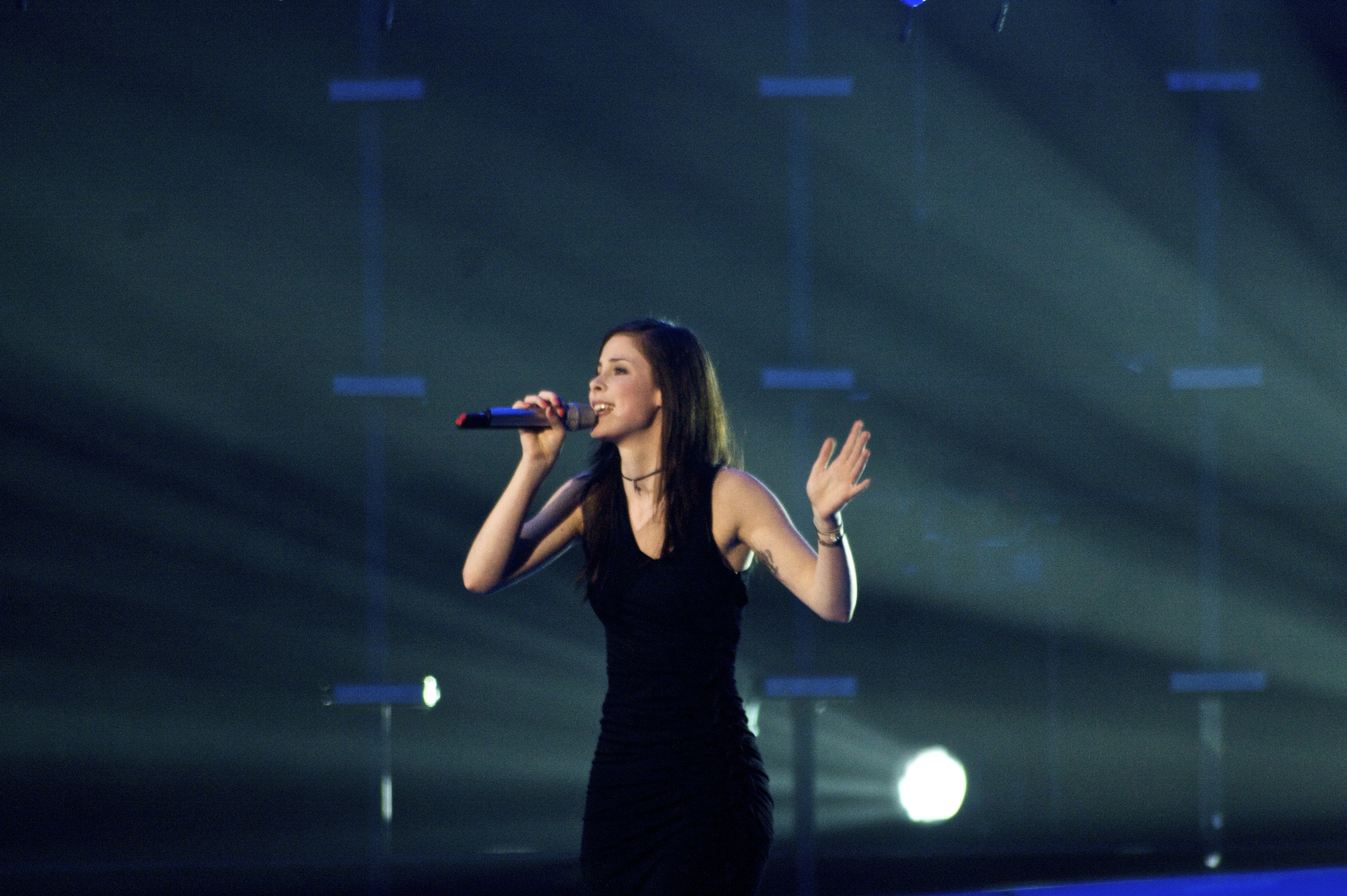 Germany's Eurovision Song Contest participant Lena Meyer-Landrut onstage in the Telenor Arena in Fornebu (during the rehearsals)